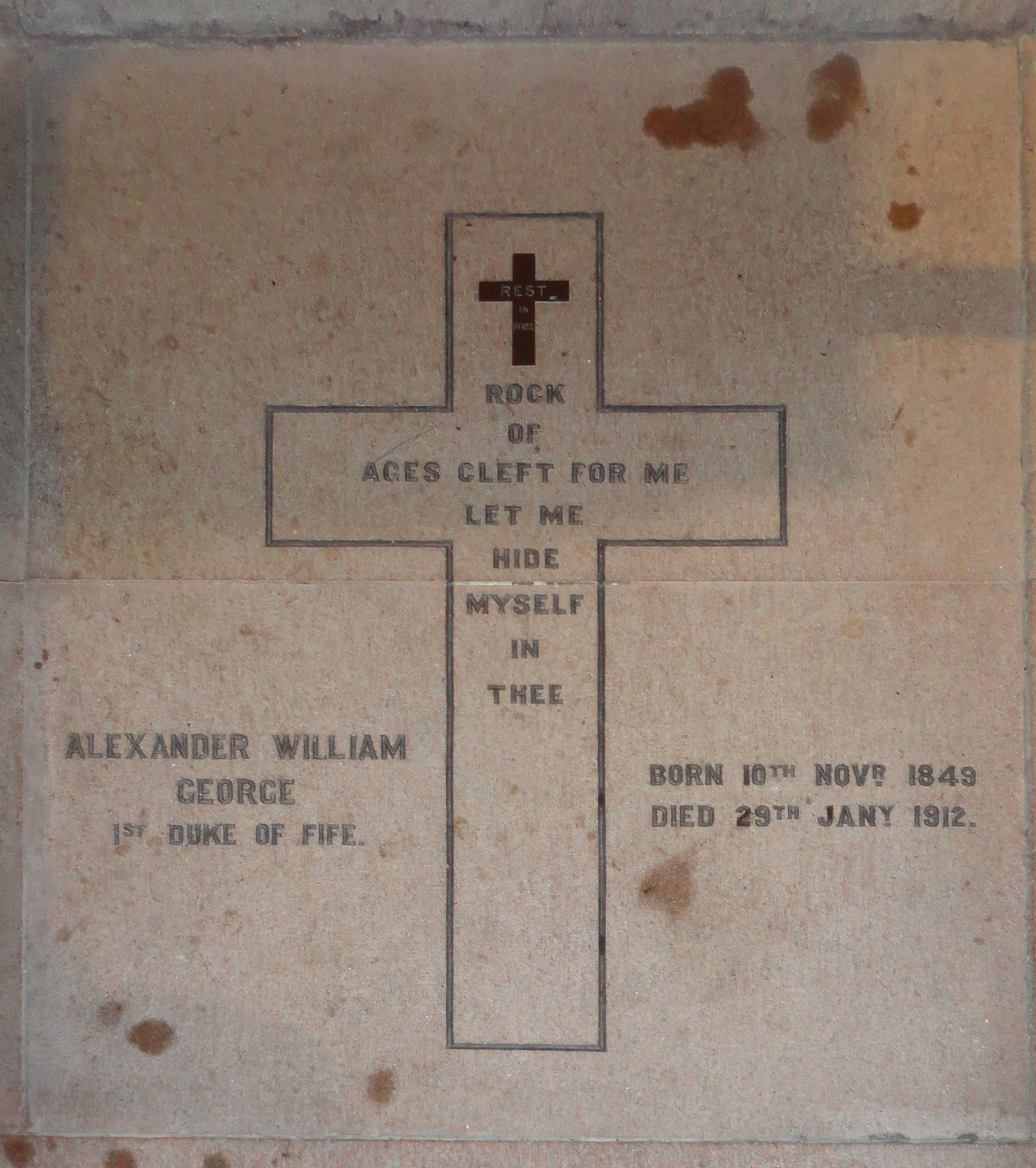 Braemar, Mar Lodge Estate, St Ninian's Chapel - floor slab marking the grave of the 1st Duke of Fife (1849–1912)